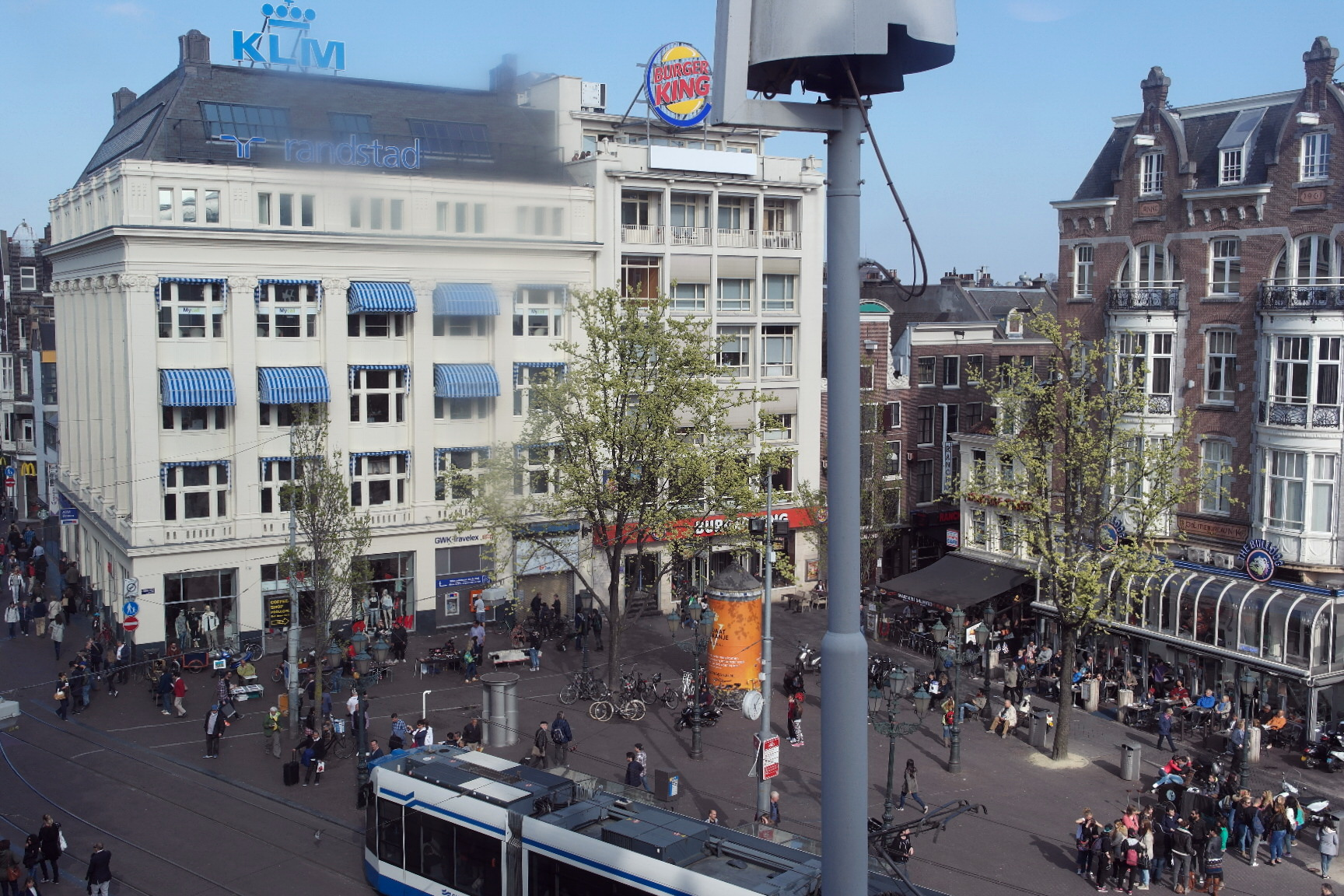 Amsterdam, the Netherlands. View of Leidseplein from Stadsschouwburg, Amsterdam's municipal theatre.